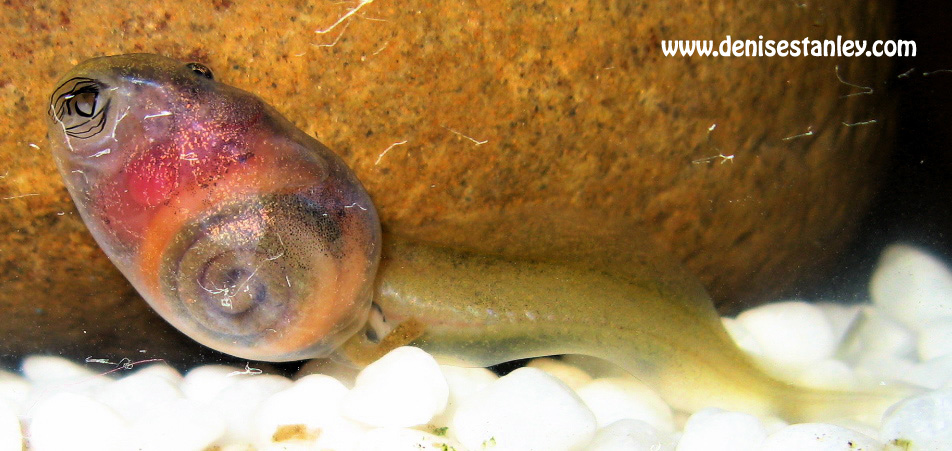 Underside image of a tadpole featuring an algae-sucking mouth, beating heart, functioning intestines and emerging hind feet.